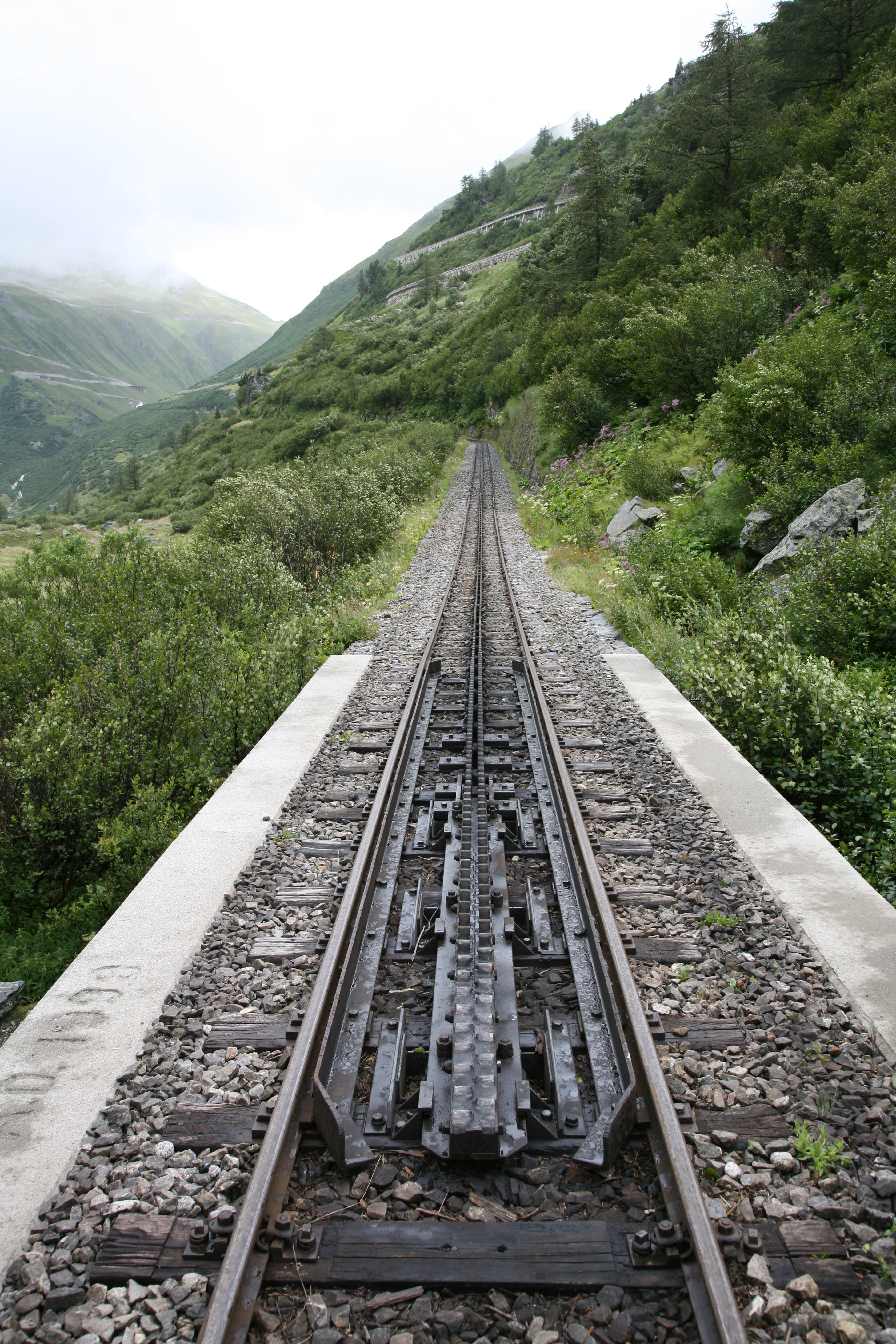 Transition from standard to Rack railway. Track of the Furka mountain pass steam railway near Gletsch, Switzerland.